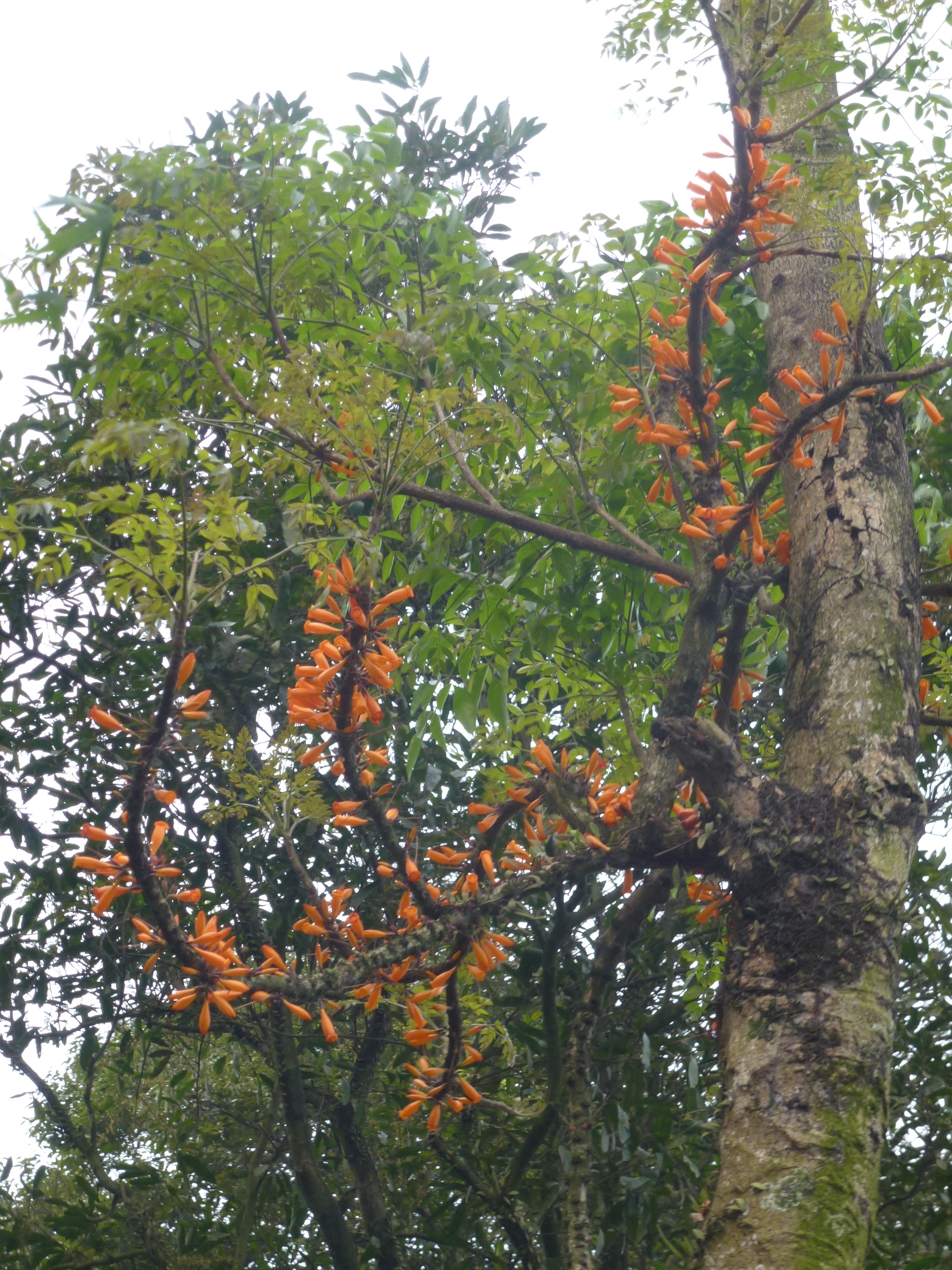 Radermachera ignea in Hùng Temple, Vietnam